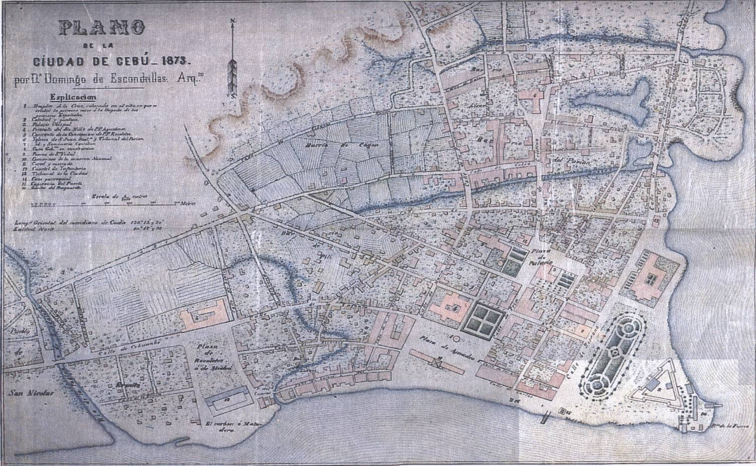 Escondrillas Plan of Cebu 1873 with the surrounding Barrios of Pari-an and San Nicolas.